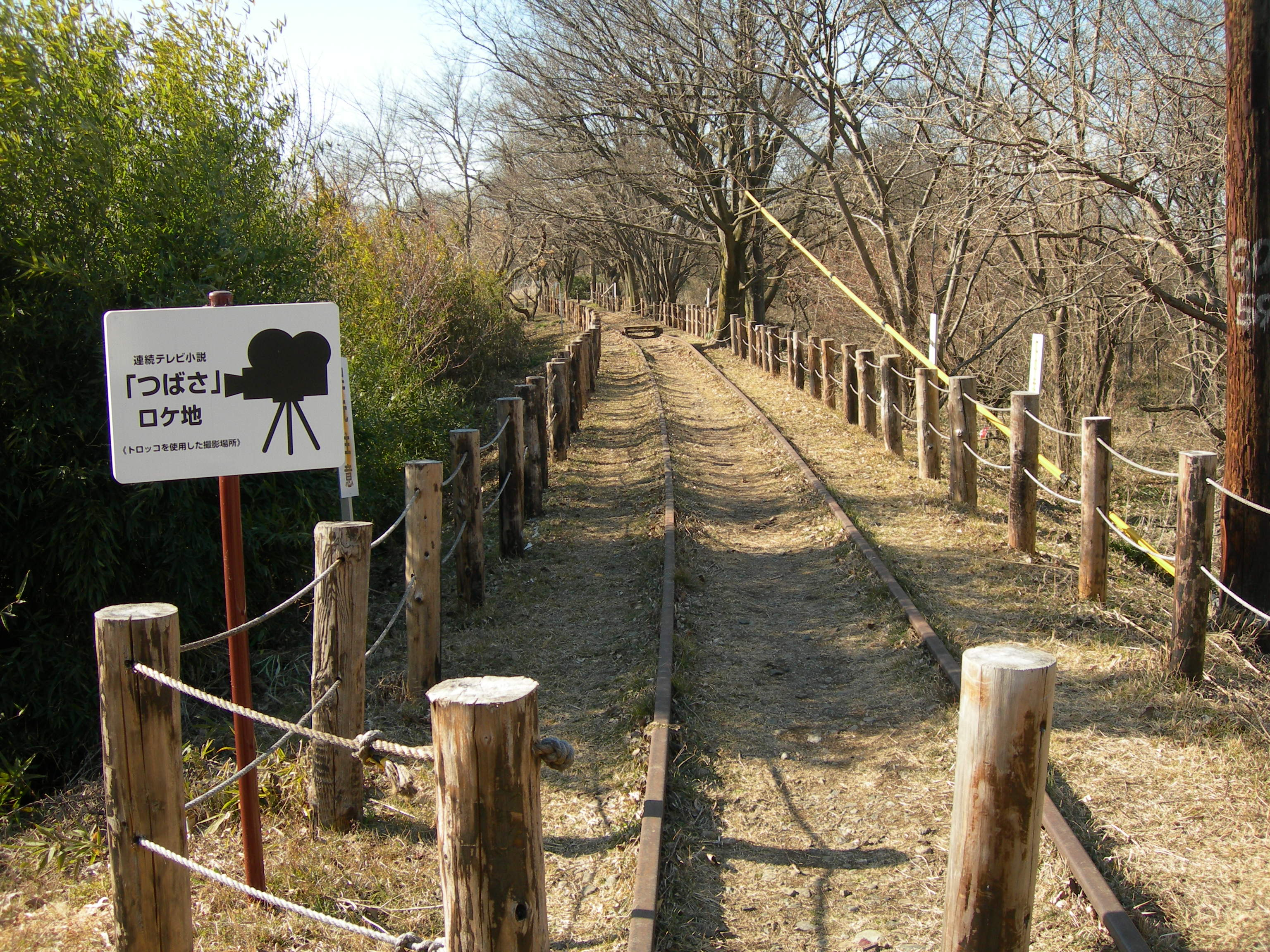 Location shooting point of NHK drama series Tsubasa on Seibu Ahina Line